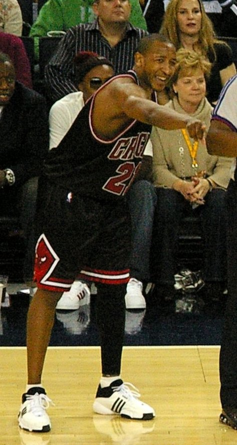 Chris Duhon This file has been extracted from another file: When Useless 1 Draft picks collide... (pt 2).jpg